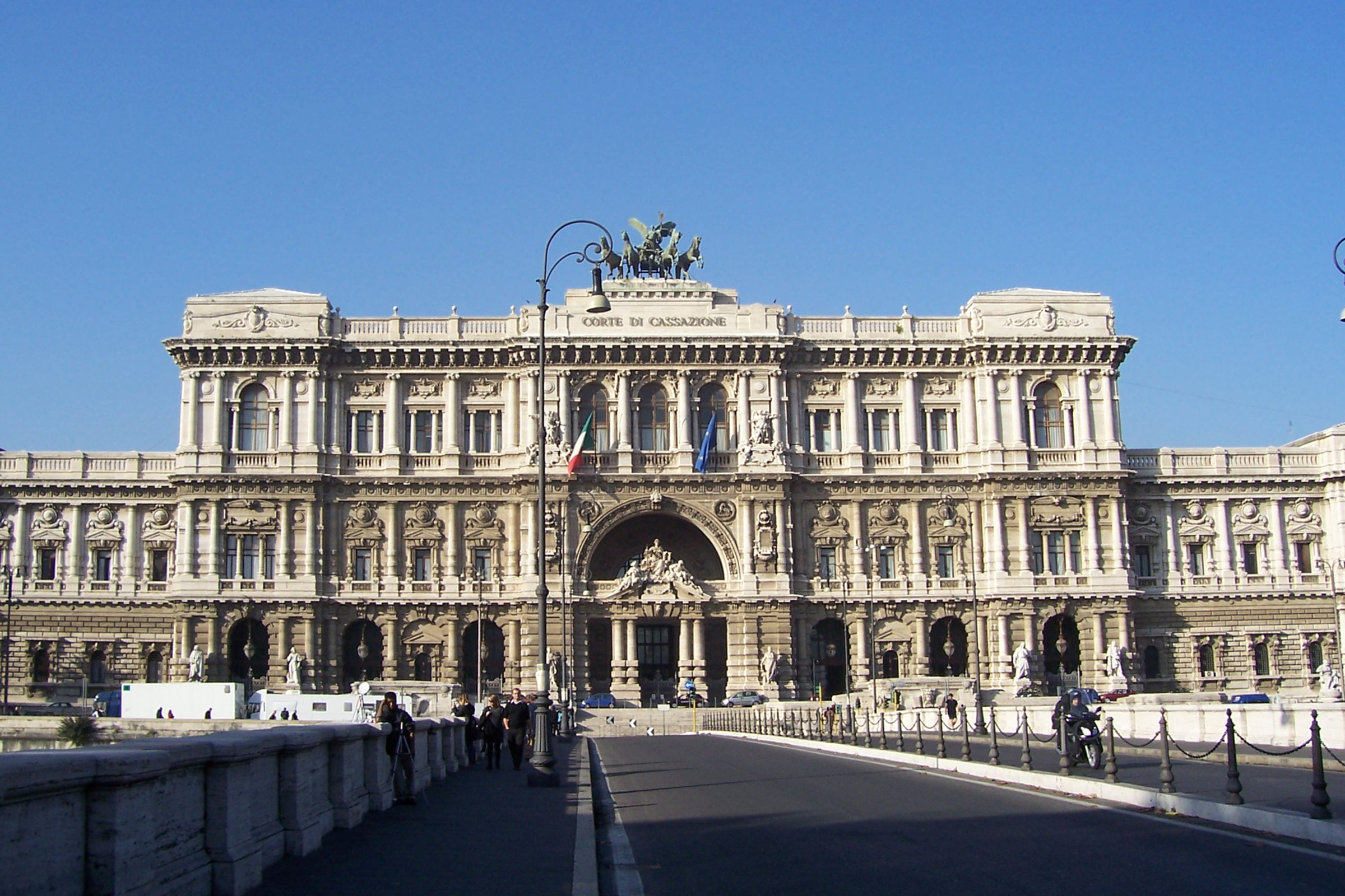 The Palace of Justice in Rome, Italy, seat of the Supreme Court of Cassation. View from the opposite side of Umberto I bridge.